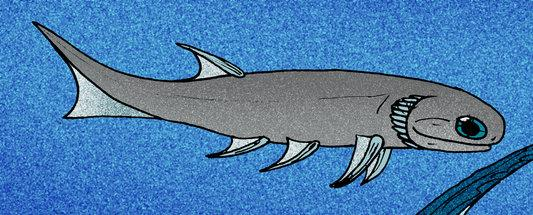 The Scottish acanthodian Mesacanthus pusillus from the Early Devonian (C) Stanton F. Fink